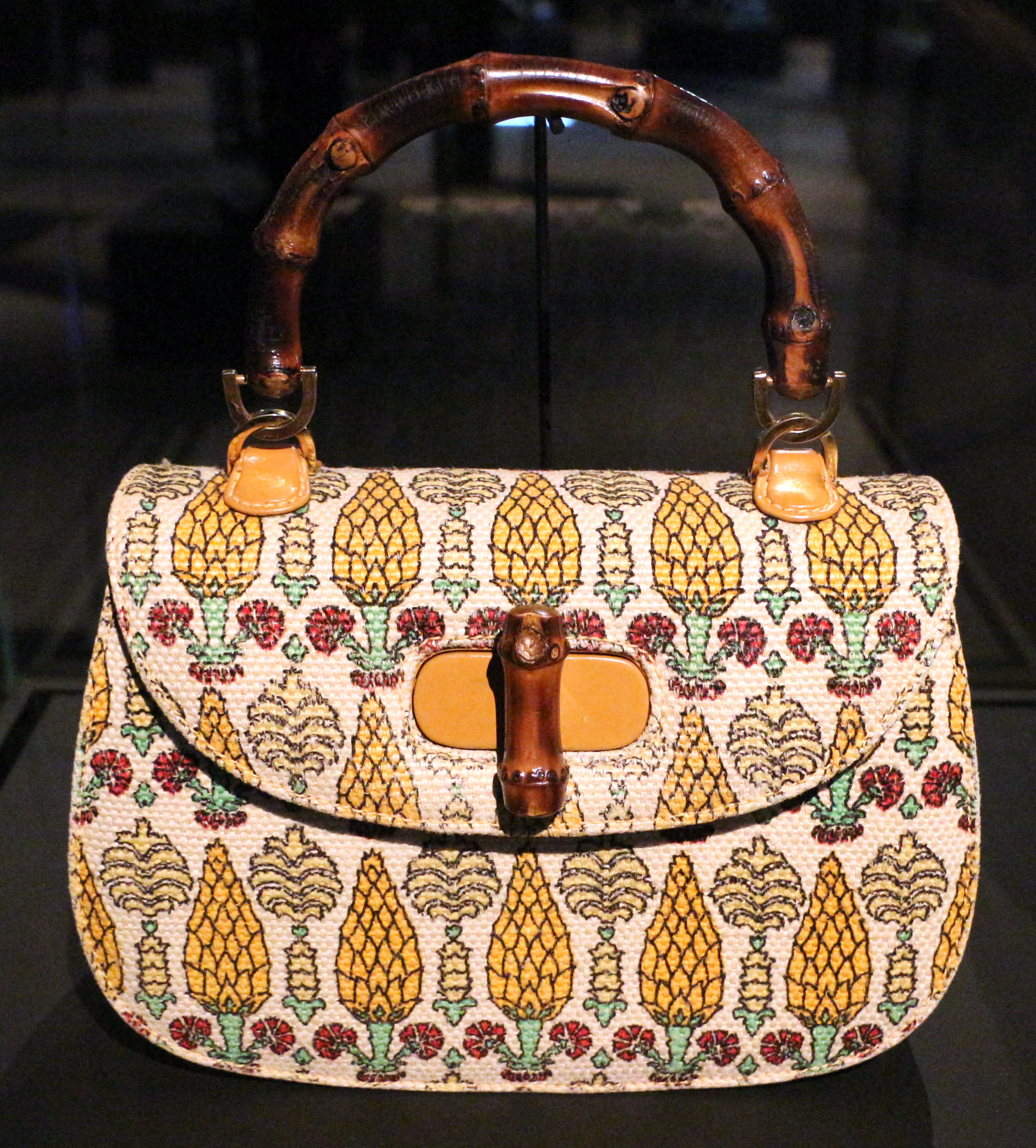 Neo Preistoria exhibition (Milan 2016)